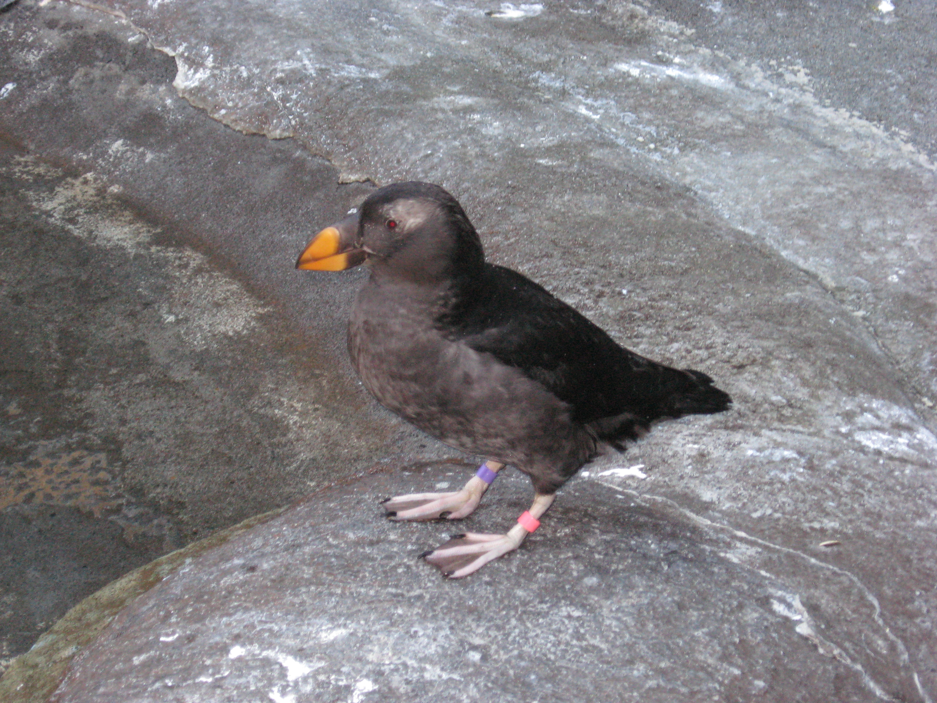 A Tufted Puffin showing winter plumage at Point Defiance Zoo, Tacoma, USA.